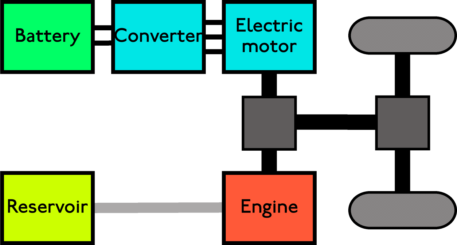 Structure of a parallel hybrid vehicle. Designed by Peter Van den Bossche